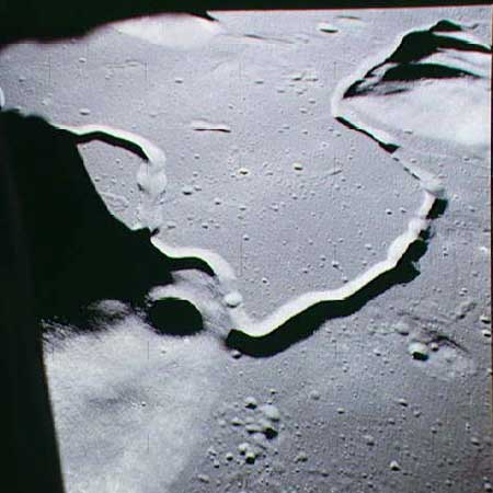 Apollo 15 landing site as seen by the crew from orbit